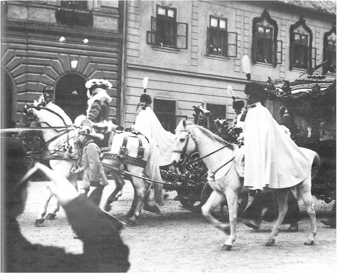 The Imperial Chariot (Imperialwagen) for the coronation of Emperor Karl I of Austria as King of Hungary. Ofen, December 30, 1916.